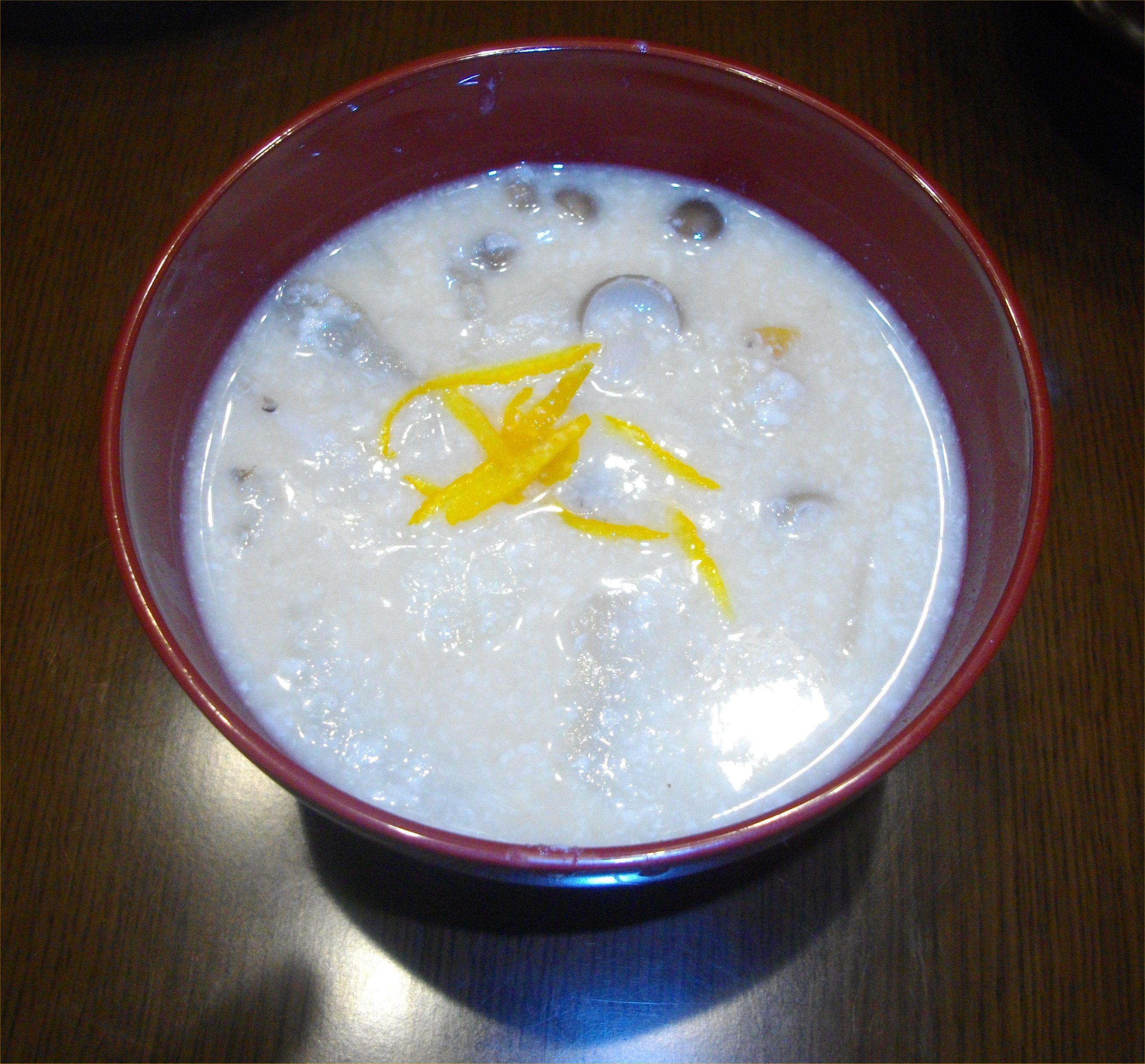 A photo of Kasujiru(a kind of Japanese soup made from "sakekasu"(Sake lees.)